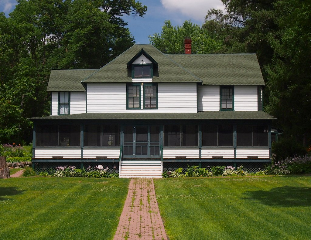 Thompson Summer House, 3012 Shoreline Dr, Minnetonka Beach, Minnesota, USA. One of the oldest surviving summer homes on Lake Minnetonka. Viewed from the south-southeast.